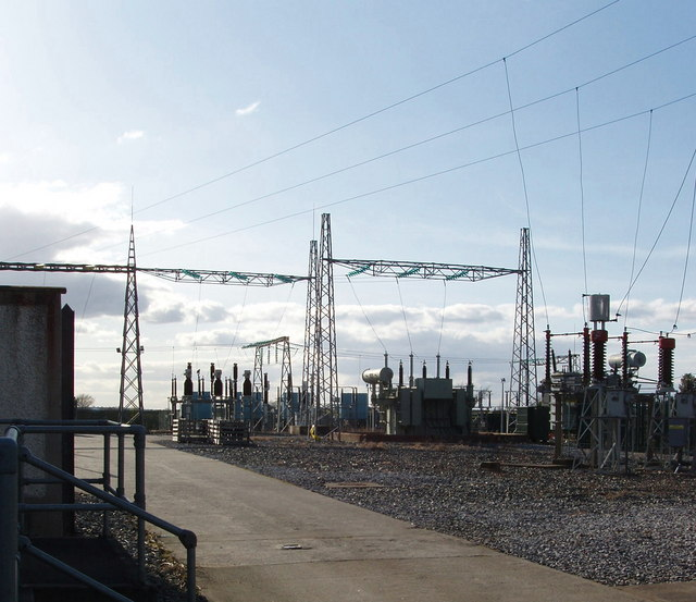 Wexford substation – 110 kV electricity substation, Barntown, near to Davidstown, Larkins Cross Roads and Muchwood Cross Roads, Wexford, Ireland.